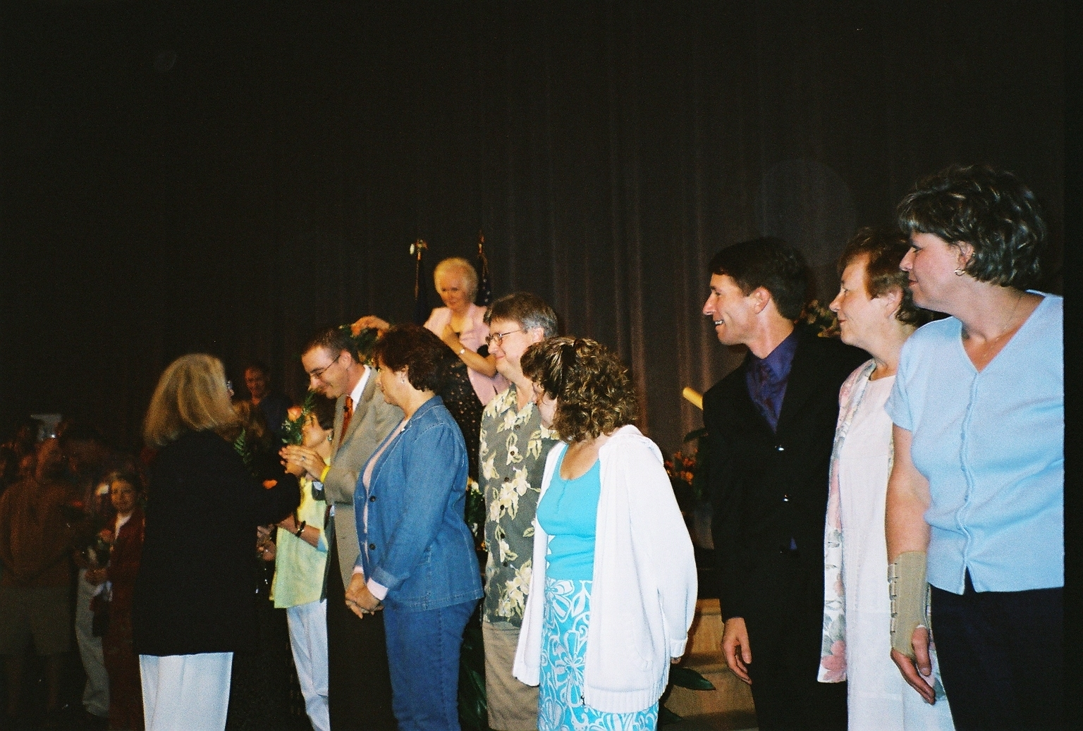 PHOTO DESCRIPTION: Rev. David Alexander, now Senior Minister of New Thought Ministries of Oregon, is to the far right (receiving an award, his head down, a smile on his face). [1]. Behind Alexander, on stage, the woman with the white hair is Rev. Sally Rutis, now also a senior minister of NTMO. Fourth from the right is Hiedi Simon, now an employee of Mary Manin Morrissey's Life Soulutions company Next to Hiedi stands David York, now musical director of New Thought Ministries of Oregon [2]. Beside David York is Sally Brunell. Woman closest to right is unknown (to me). I took this picture of Living Enrichment Center's last service, which was held at Valley Theatre :Image:Leclastservice.jpg in Beaverton. Though this picture may more appropriately be categorized in the "Images of Beaverton, Oregon" subsection, I have chosen to place it in the "Images of Wilsonville, Oregon" subsection because Living Enrichment Center became famous while located in Wilsonville. This final service for Living Enrichment Center was held after only a month of services in Beaverton. Prior to that, LEC had been located at the Wilsonville location for about 11 years. If anyone decides to relocate this image to the "Beaverton, Oregon" subsection, I will not contest such decision.